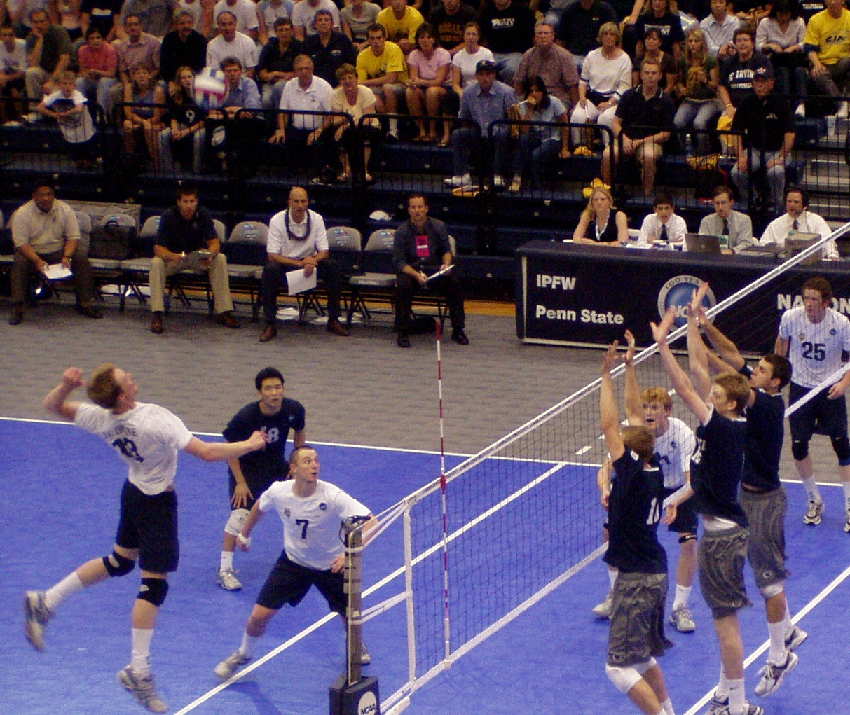 Kill shot against three blockers in the 2006 NCAA semifinal between Penn State and University of California, Irvine at Rec Hall.